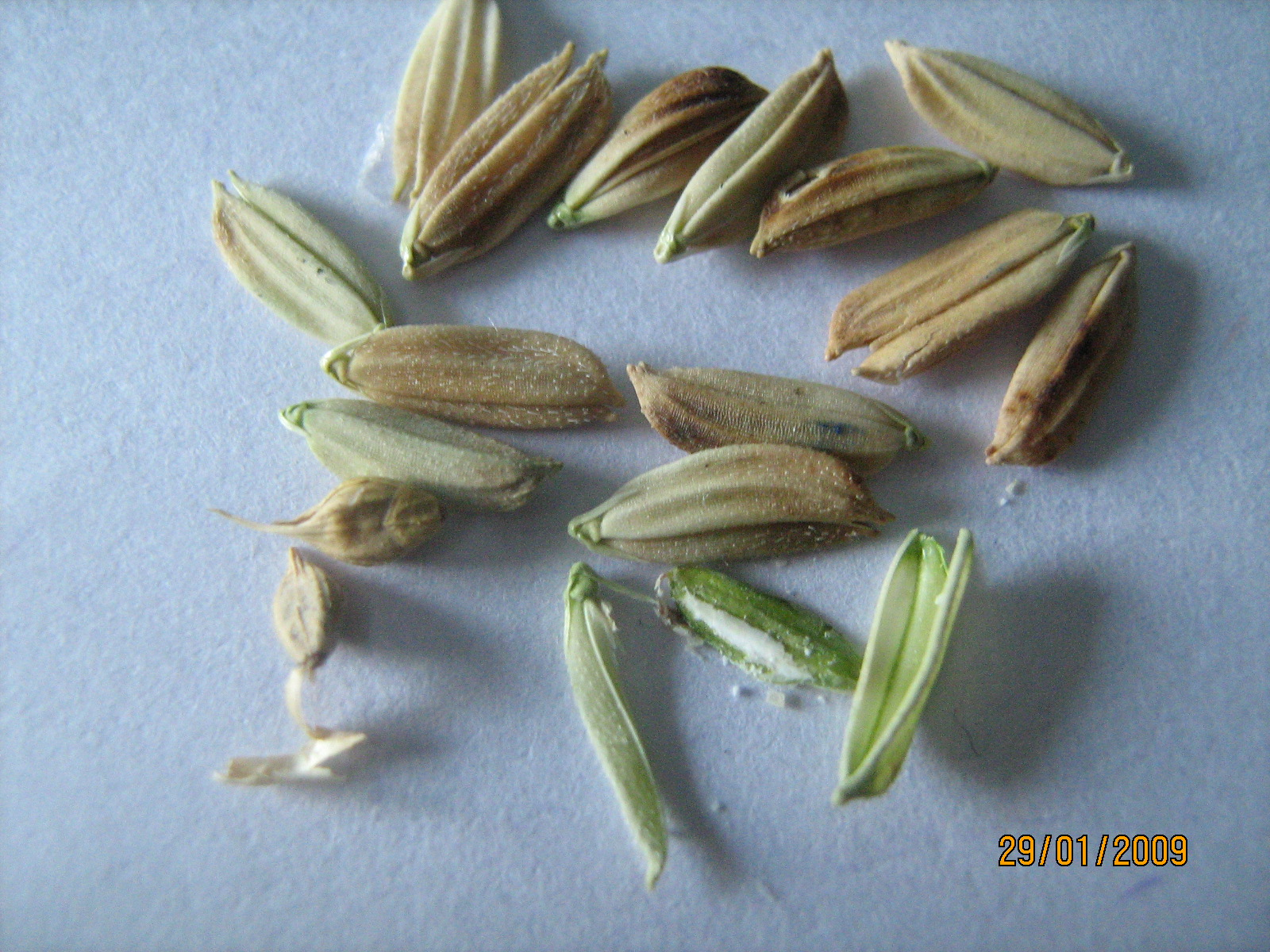 chaffs of Paddy (Tamilnadu state, India)